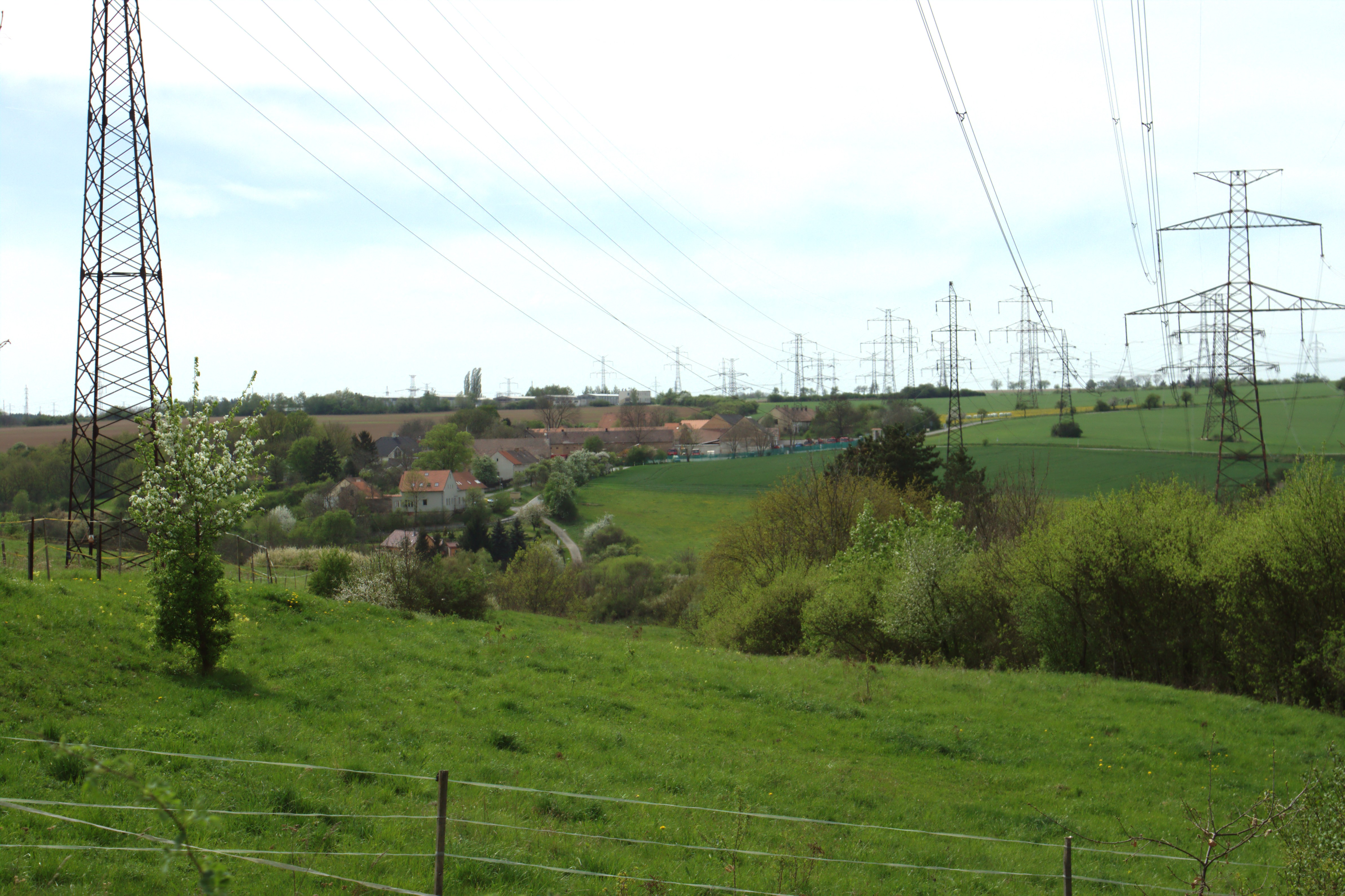 Some meadows near Zmrzlík, Prague, CZ